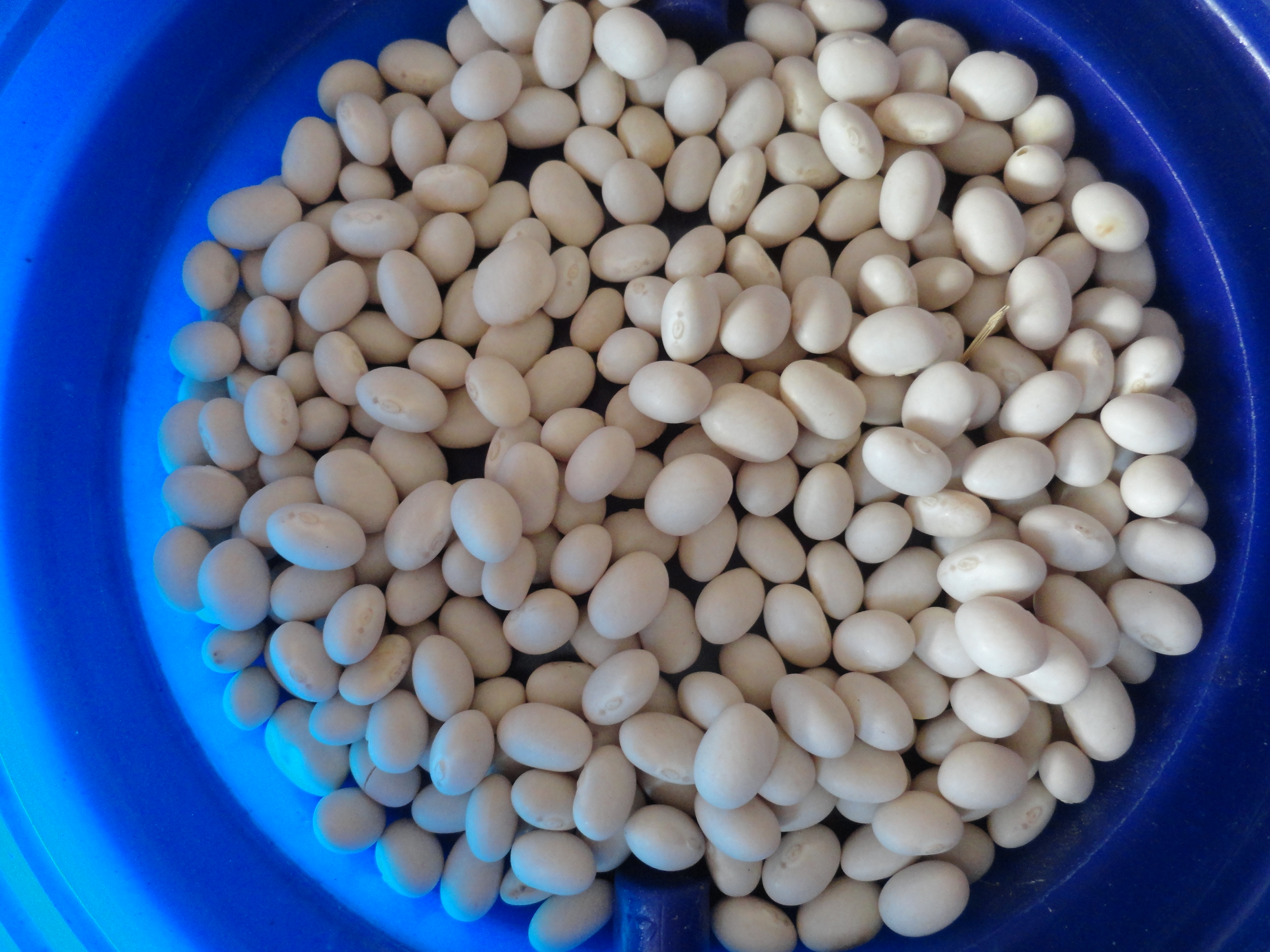 soyabeans